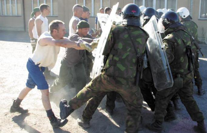 Finnish conscripts serving in the rapid deployment force of Pori Brigade, training for riot control